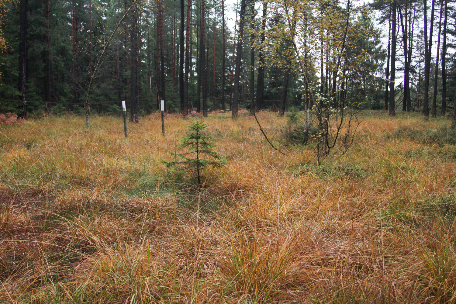 Natural monument Nad Dolskym mlynem in Bohemian Switzerland